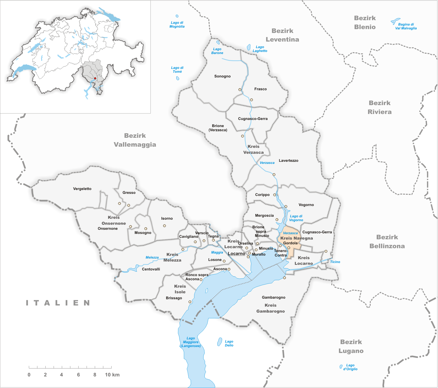 Municipality Gordola Artist: Tschubby